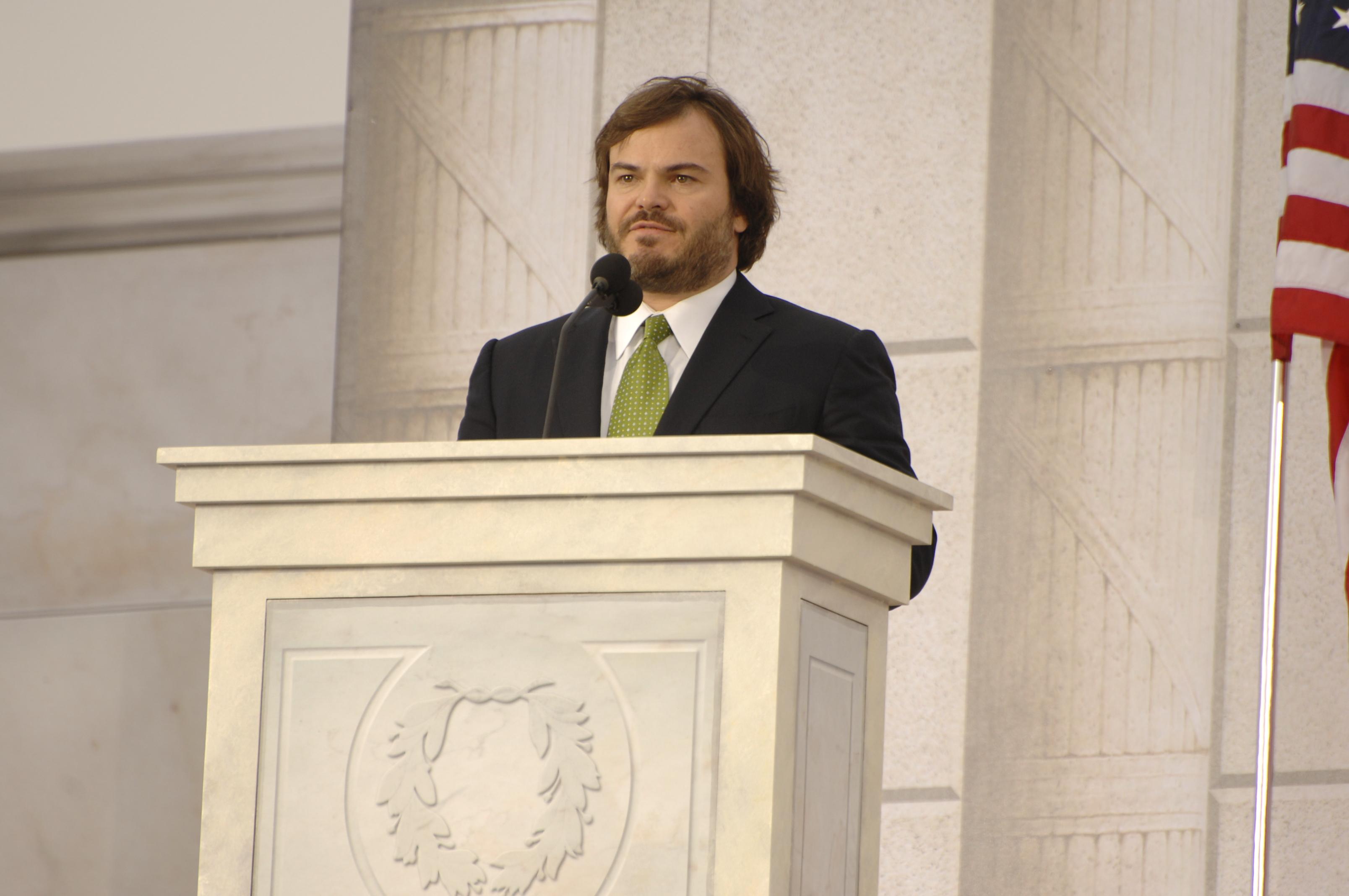 Jack Black at the Lincoln Memorial on the National Mall in Washington, D.C., Jan. 18, 2009, during the inaugural opening ceremonies.